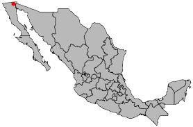 Location of Mexicali, Baja California, Mexico